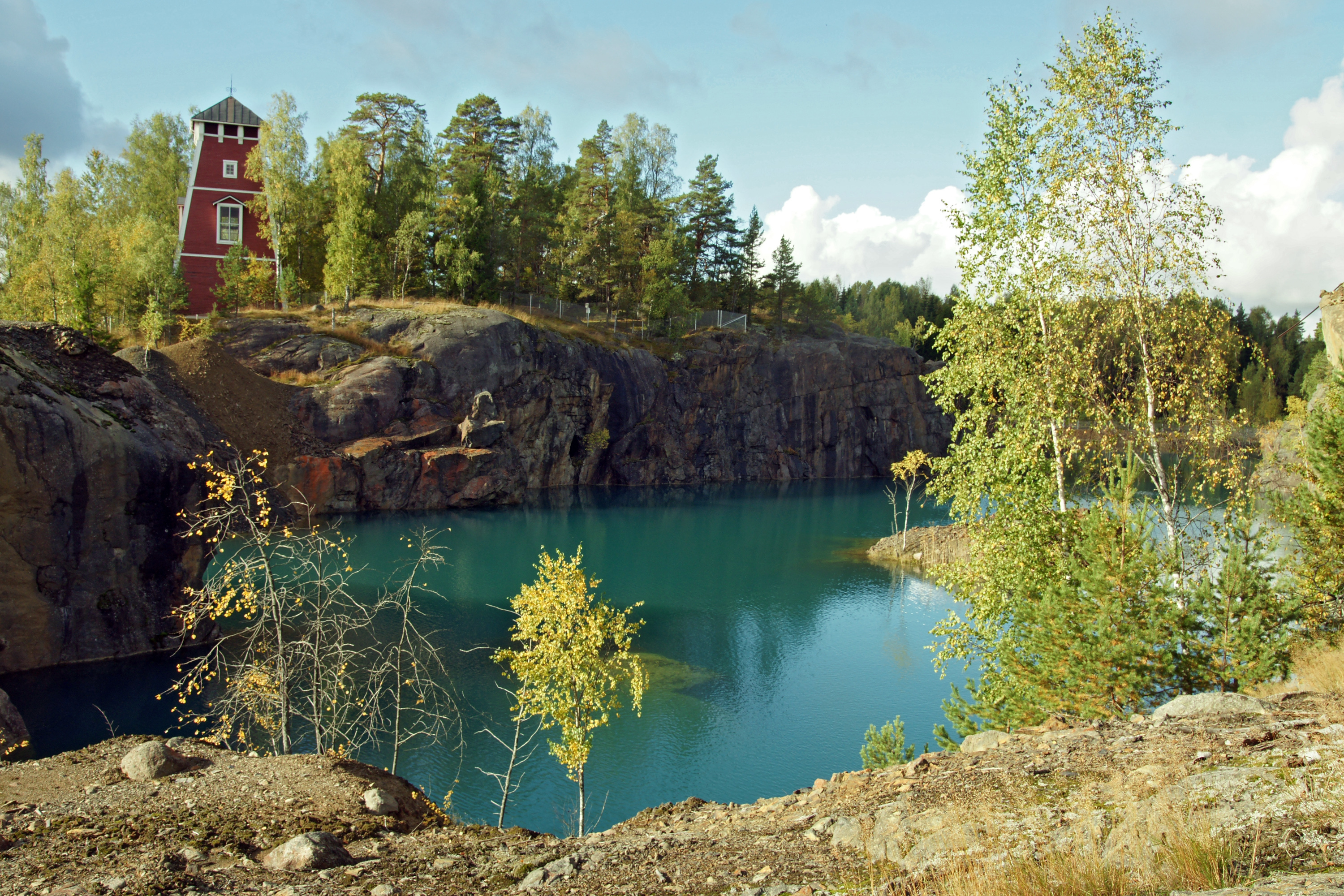 Old copper mine of Orijärvi in Kisko, Finland.